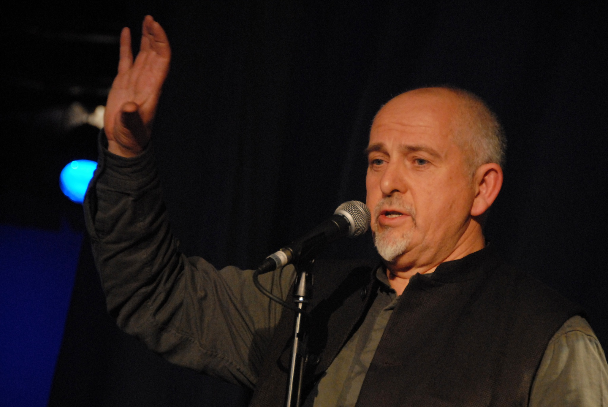 Peter Gabriel at the 2007 BBC Radio 2 Folk Awards at The Brewery, London.